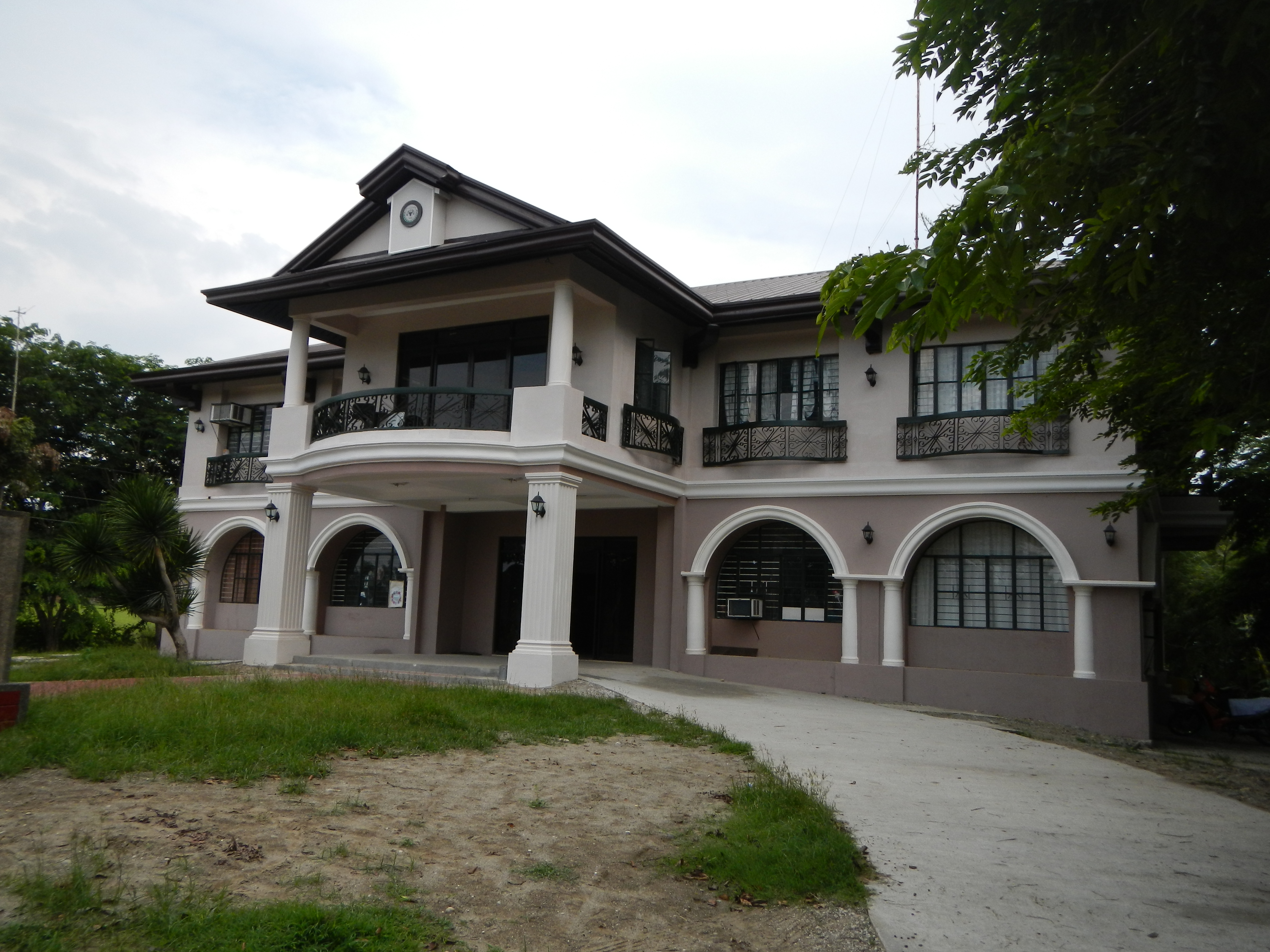 Original, raw/unedited and rarest photos of Town hall of San Jose, Tarlac [1] is a third-class municipality in the province of Tarlac,[2] Philippines. According to the 2010 census, it has a population of 33,960 people. It was created into a municipality pursuant to RA 6842; ratified on April 21, 1990; taken from the municipality of Tarlac City. San Jose is politically subdivided into 13 barangays. [3] Land Area: 397.30 km² ZIP Code: 2318 Coordinates: 15°25'46"N 120°21'15"E [4] [5] This place is situated in Tarlac, Region 3, Philippines, its geographical coordinates are 15° 29' 0" North, 120° 38' 0" East and its original name (with diacritics) is San Jose: Geographical location: Tarlac, Region 3, Philippines, Asia.[6] Monasterio de Tarlac May 7, 2013 Tarlac mayoralty candidate Rudy Abella shot dead ---------[N.B. May 27, Monday, 2013 Photography of Rosario, San Jose, Tarlac [7] : 30% cloudy and 70% sunny weather using my Nikon AW 100 waterproof shockproof camera. From Bulacan at 10:05 a.m., I took photo at 12:52 pm of Tarlac City and reached TRP (Tarlac Recreational Park) of San Juan de Valdez, San Jose, Tarlac at 2:29 p.m. and finished photography of the town's landmarks at 4:18 pm then took photos of Tarlac Cathedral and Cory Aquino Monument at 5:31 p.m., and arrived at Bulacan at 9:10 pm after 4+ hours of travel by bus, and started uploading via slow internet at 9:40 pm - I hereby certify that these raw, original and unedited photos are exclusive for Commons and Wikipedia never uploaded in any Internet or any site, and for the public domain without any condition.]